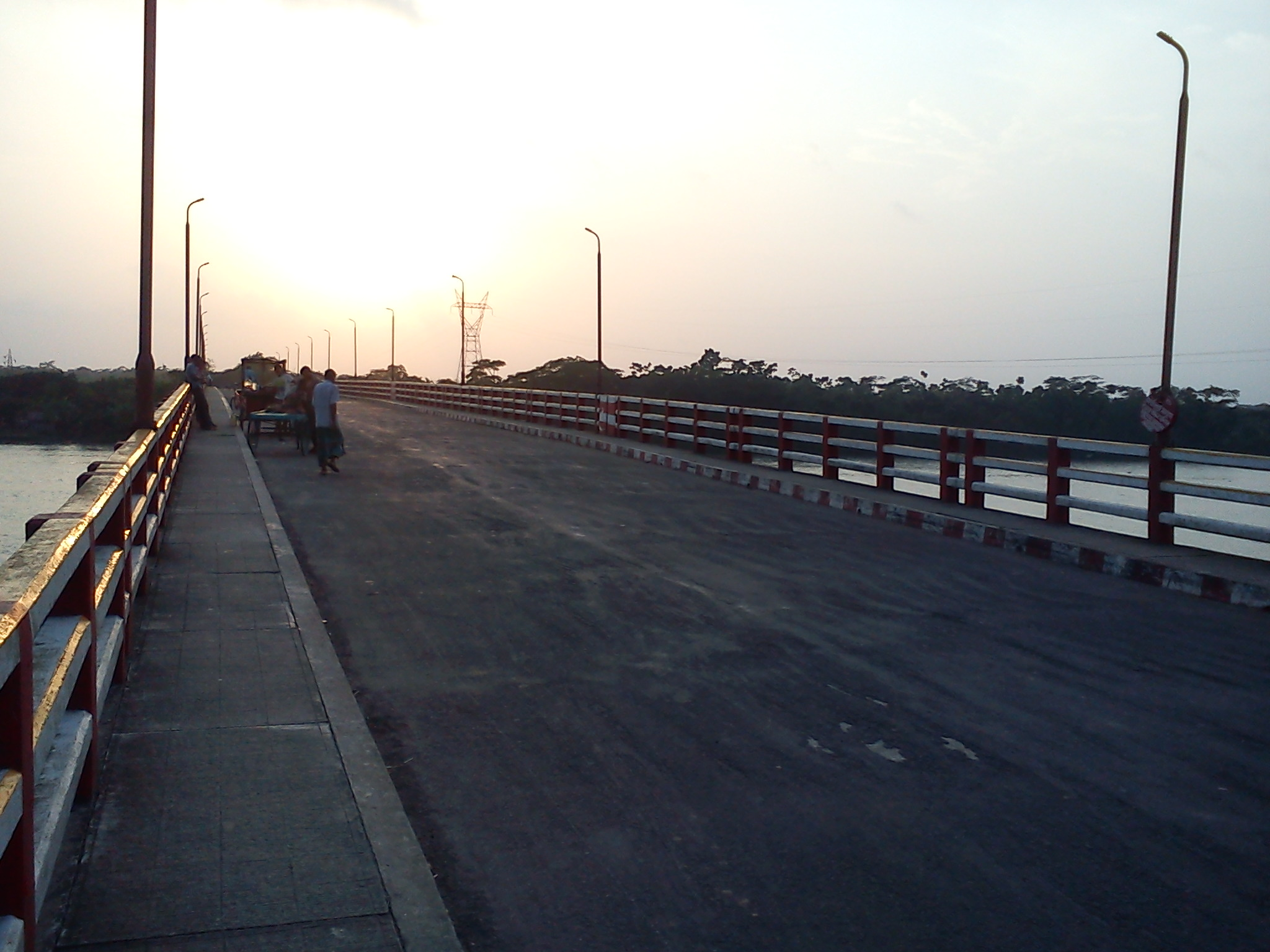 Baleshwar Bridge, Pirojpur